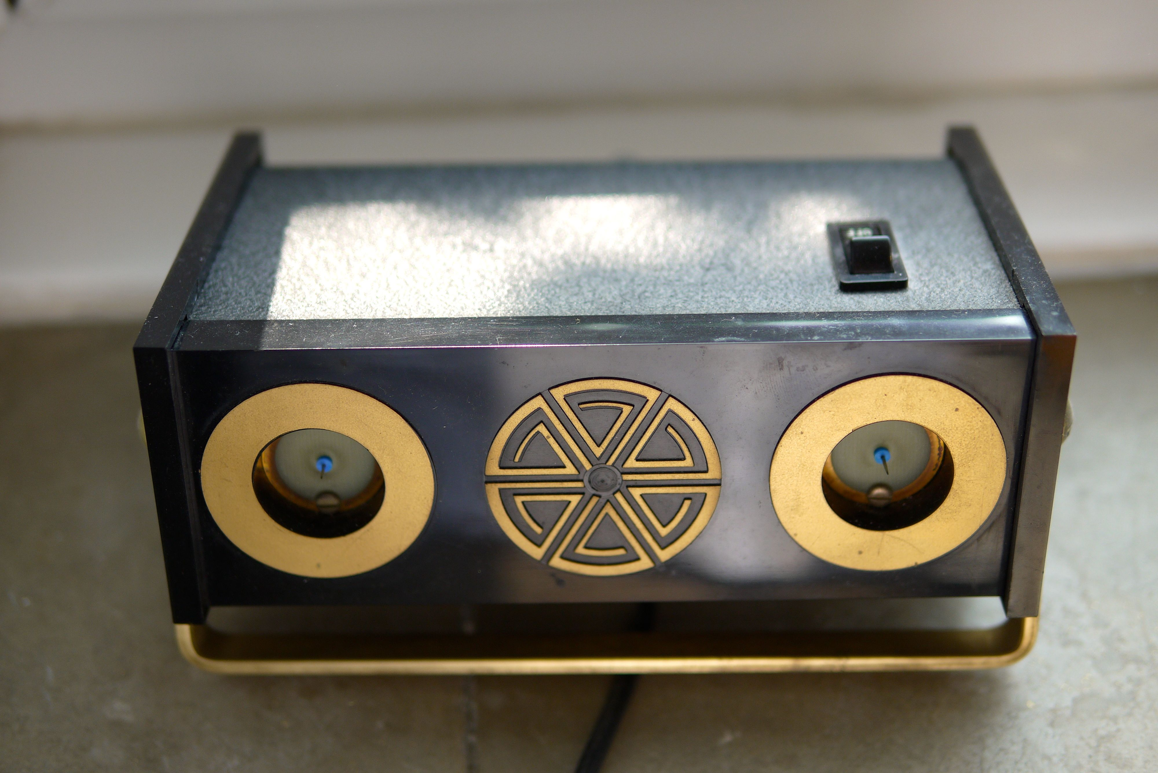 Airtone Medion Ioniser International portable model. Circa 1981.